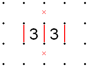 A partial Slitherlink game demonstrating the lines and blanks that can be marked when two 3s are adjacent.